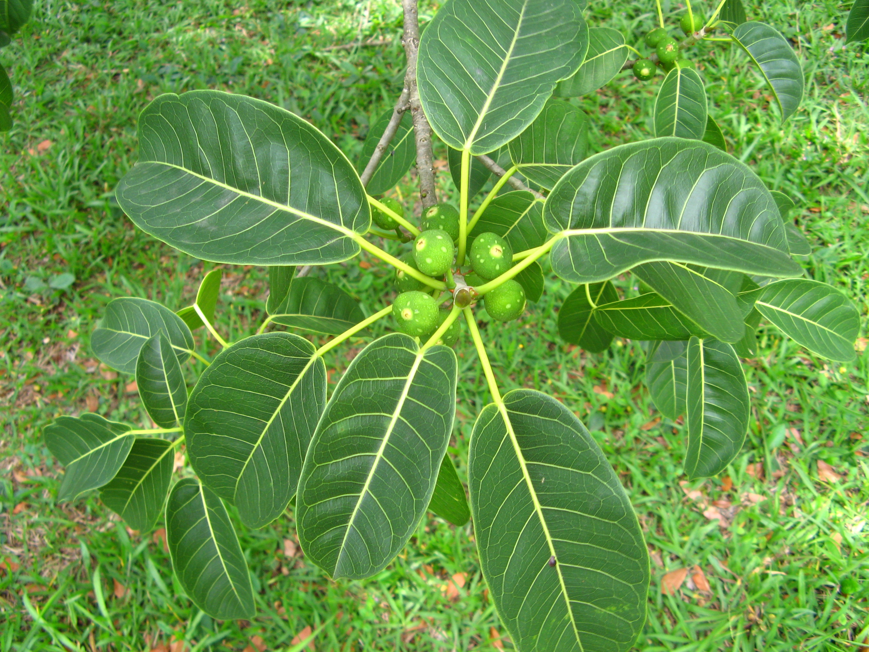 Ficus citrifolia, Ceret sao paulo Brazil. Latin america tree